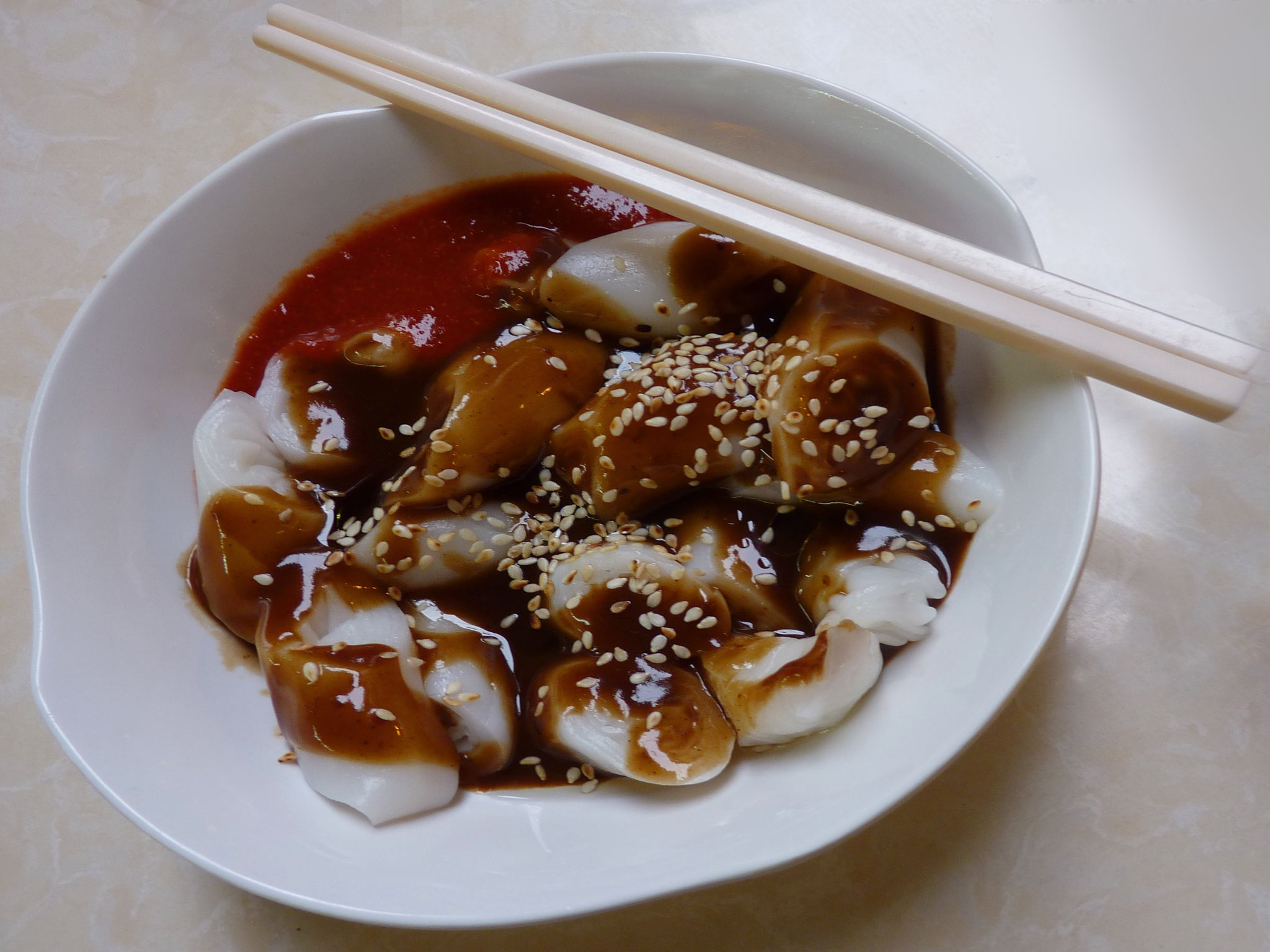 Malaysian chee cheong fun with chilli and black sweet sauce.